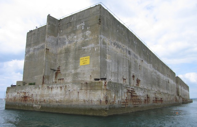 Mulberry Harbour